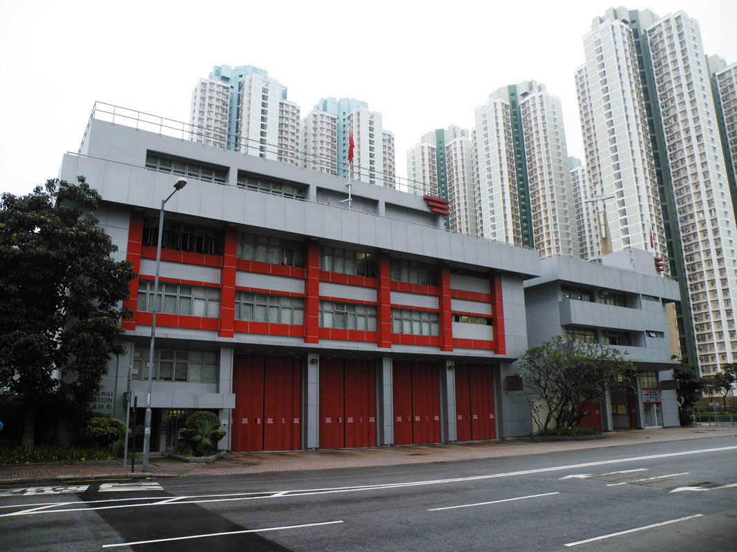 Tin Shui Wai Fire Station